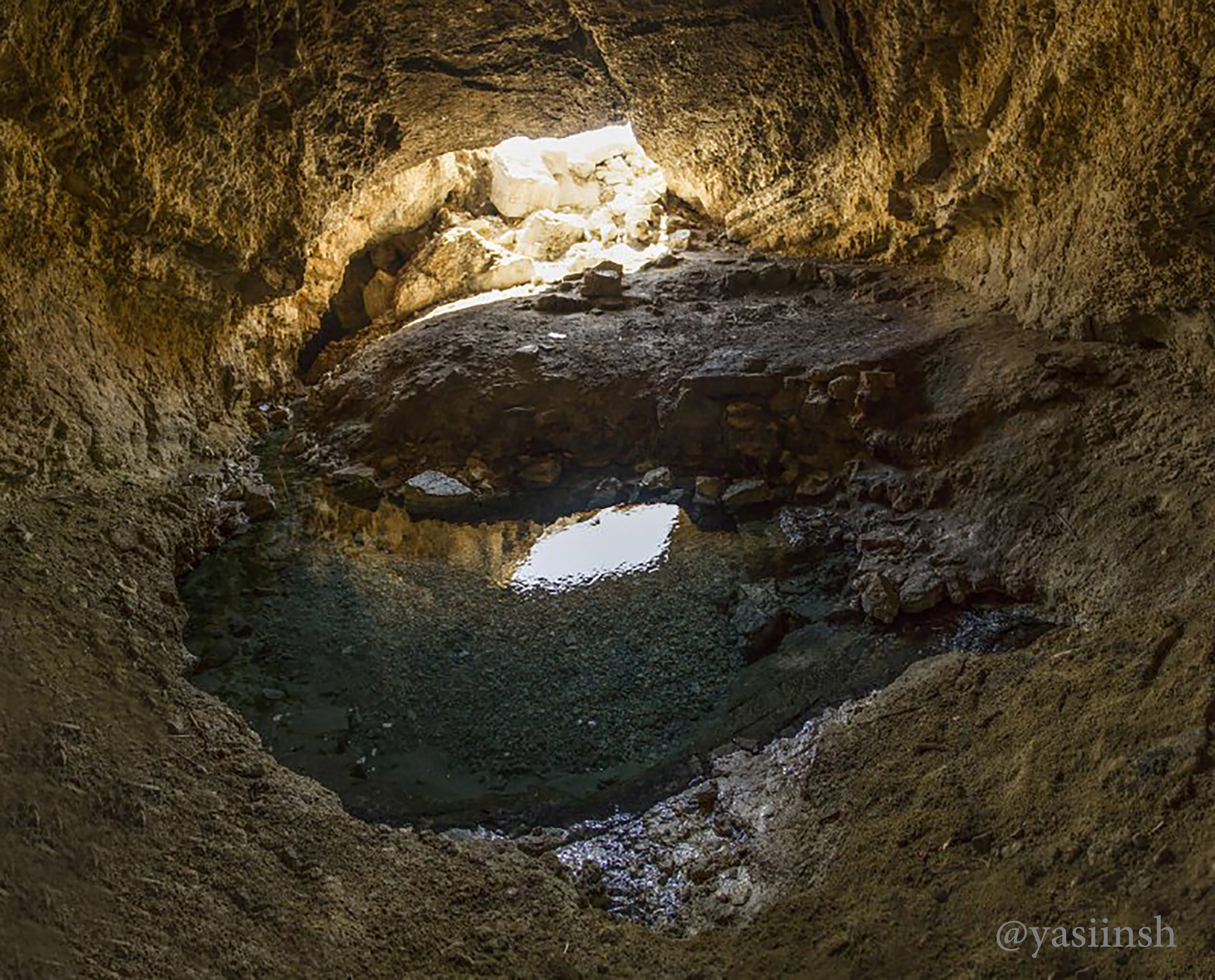 ِDehram- Ab-Bouee